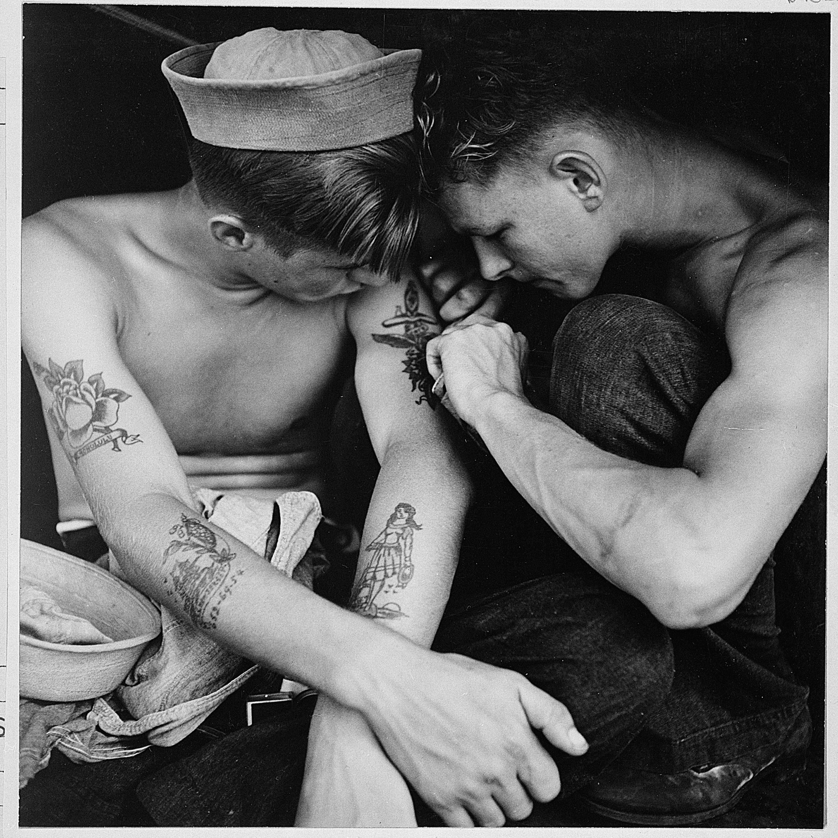 General notes: Use War and Conflict Number 895 when ordering a reproduction or requesting information about this image.